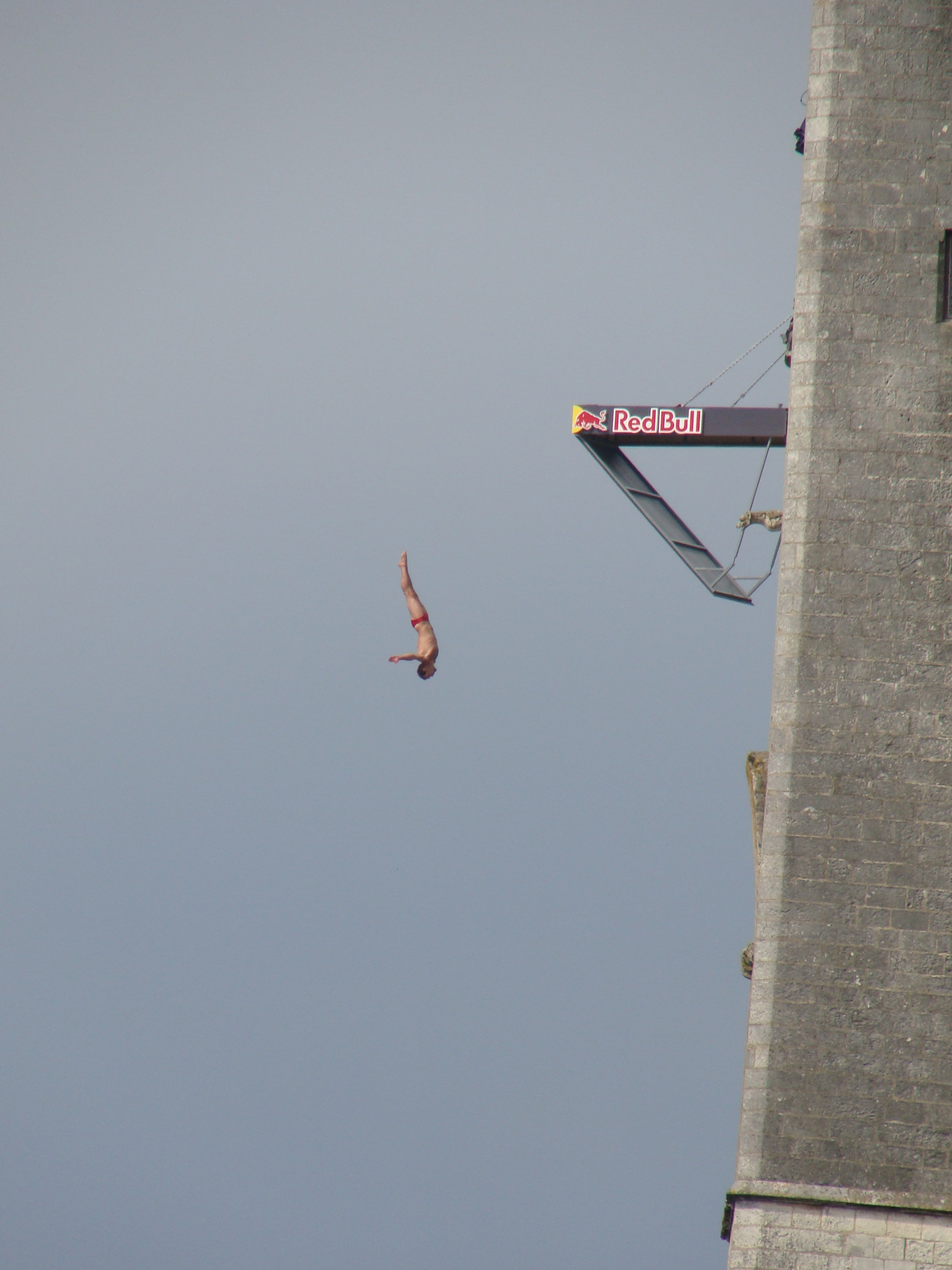 RedBull cliff diving world series championship 2010 in La Rochelle, France